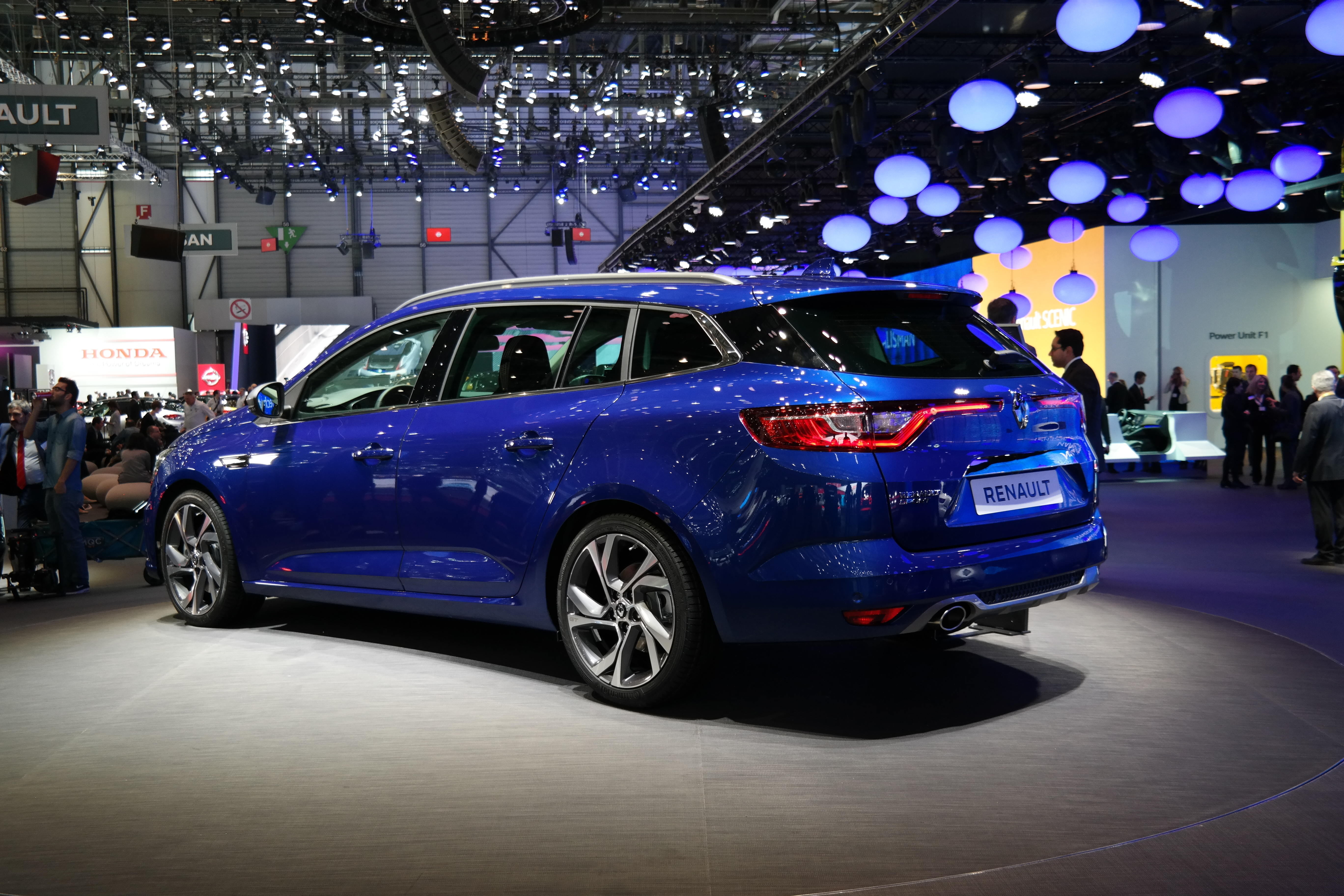 Geneva Motor Show 2016 (photo taken on the first press day)